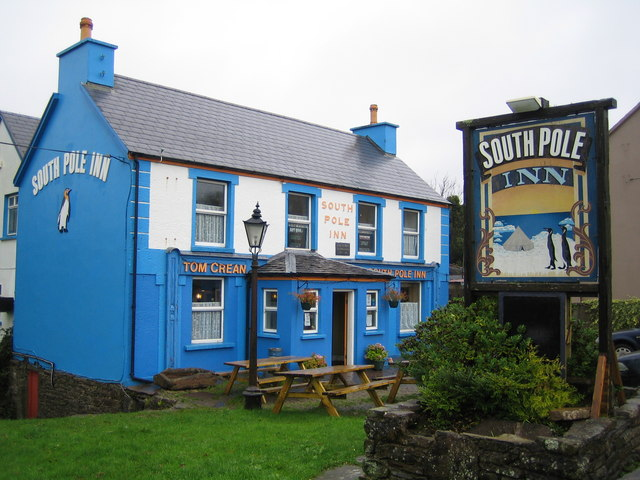 Anascaul: South Pole Inn This pub was owned by Tom Crean, a native of Anascaul, who led an extraordinary life as an Antarctic explorer on three of the four major British expeditions there during the early part of the 20th century. He was a tried and trusted member of both the ill-fated Scott and Shackleton expeditions, but survived them all to eventually return to Anascaul. The Wikipedia link giving more detail is here